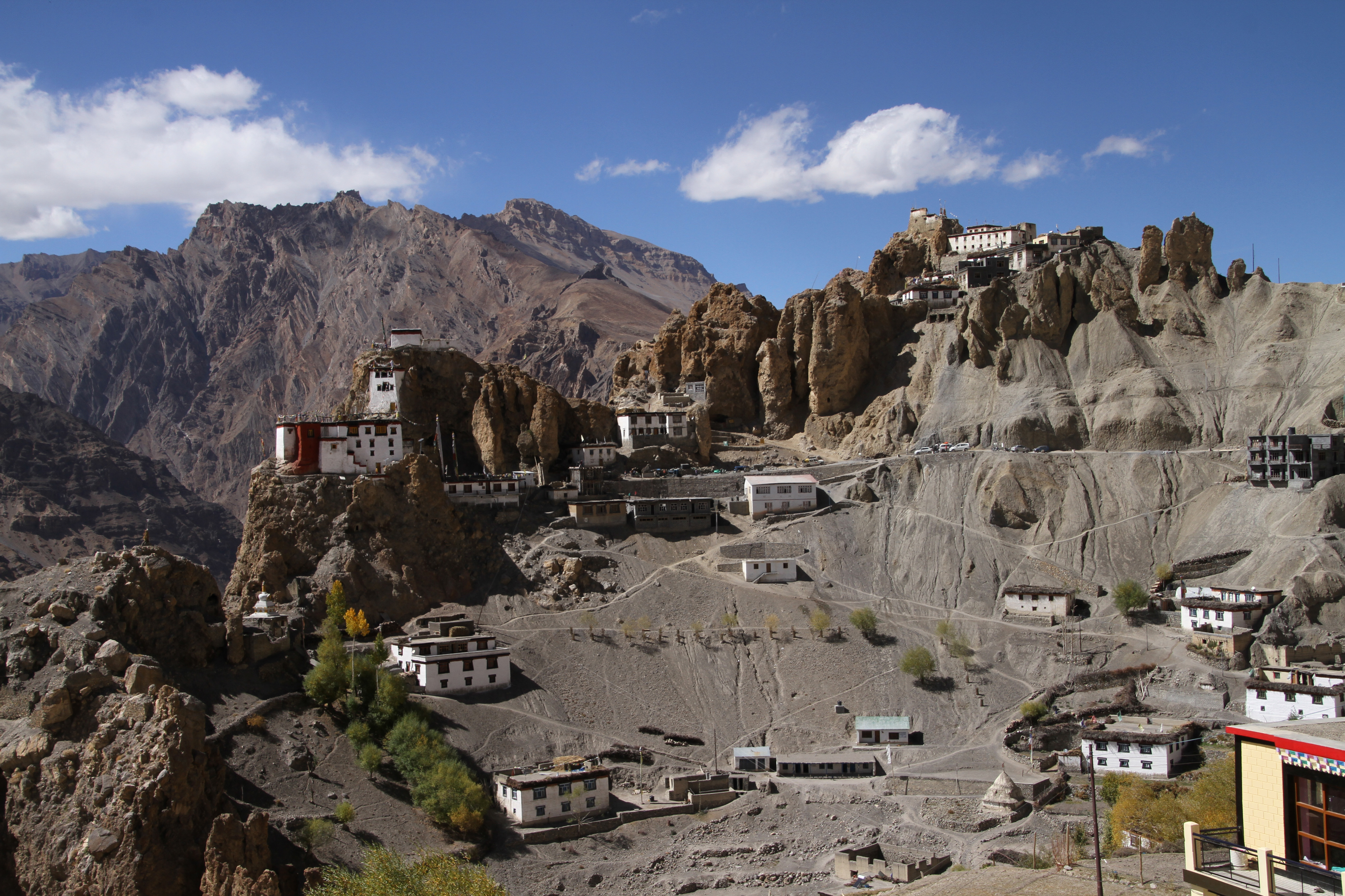 Dhankar monastery in Himachal Pradesh in India.